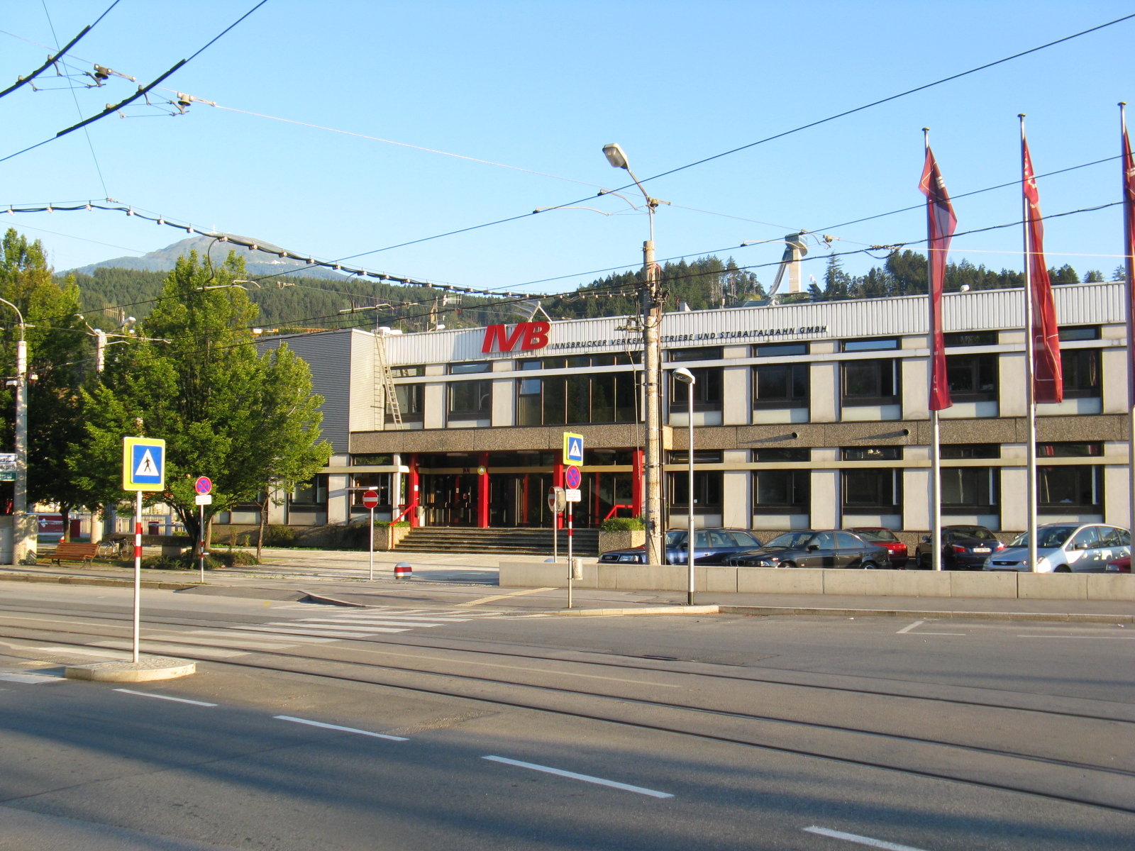 headquarter of Innsbruck municipal transport service (Innsbrucker Verkehrsbetriebe) in Pastorstraße.